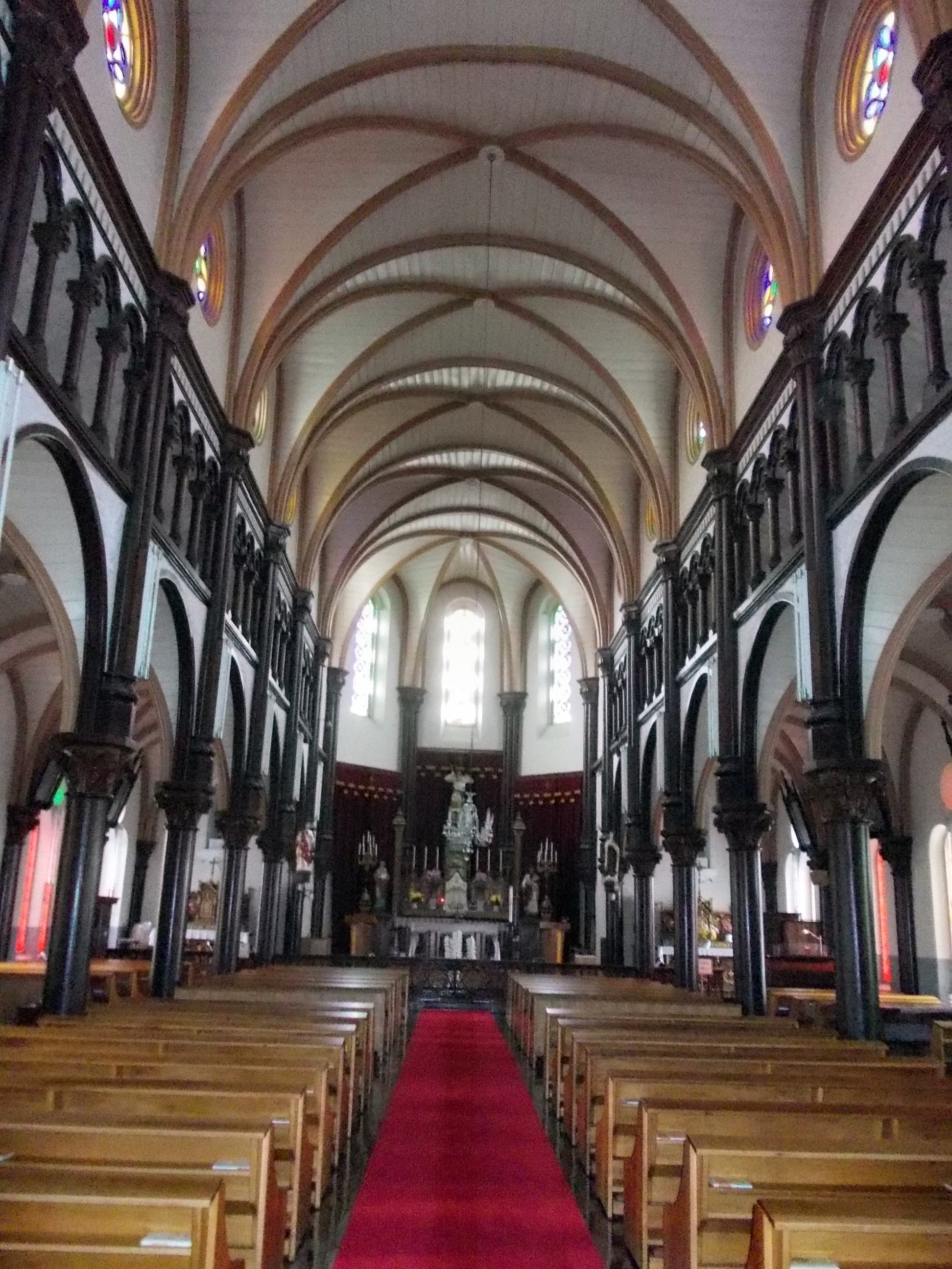 The inside of Imamura Catholic Church, Tachiarai, Fukuoka, Japan